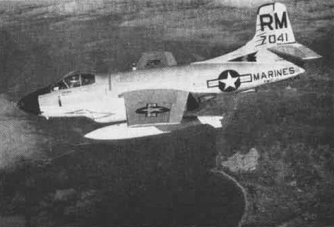 A Douglas EF-10B Skyknight (BuNo 127041) of Marine Composite Reconnaissance Squadron 1 (VMCJ-1) in flight over Vietnam in 1965-1966. This aircraft was shot down by a S-75 Dvina missile (NATO reporting name: SA-2 Guideline) from the North Vietnamese 61st Battalion, 236th Missile Regiment over Nghe An province on 18 March 1966 (coordinates 191958N 1050959E). The crew, Lt. Brent Davis and Lt. Everett McPherson, died. [1]